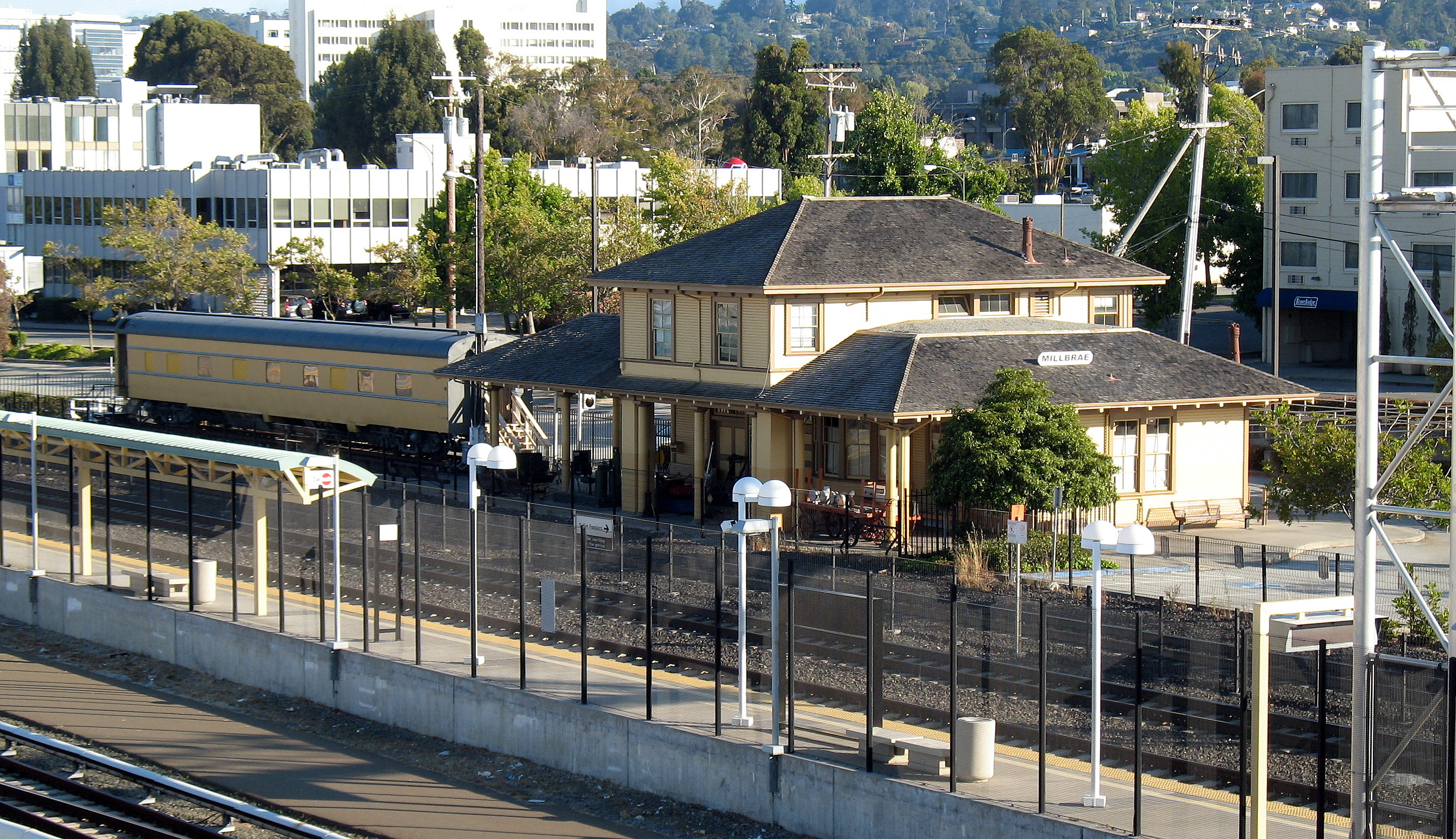 The 1907 Millbrae station in 2011, with the modern Caltrain platform in the foreground